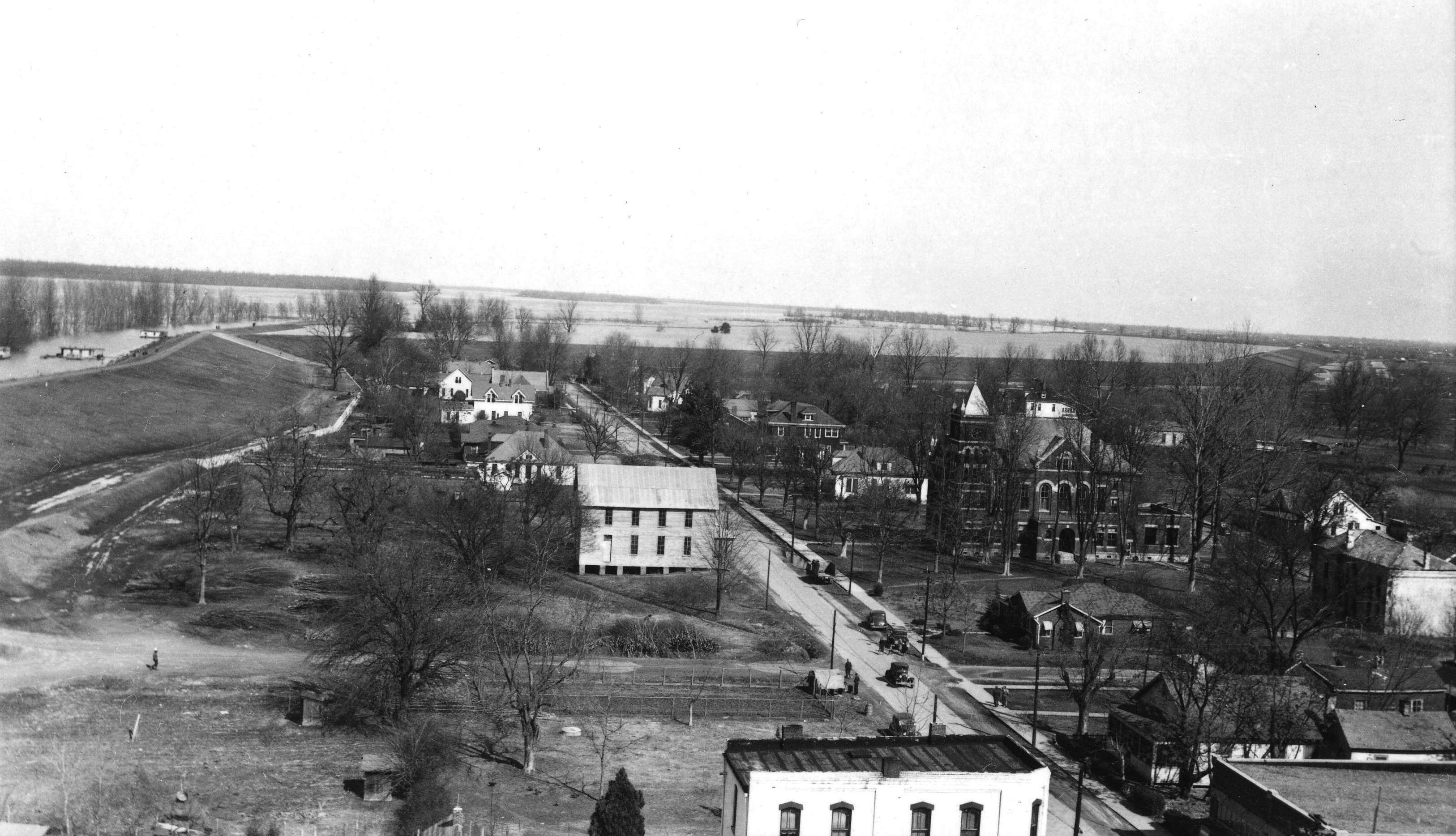 Collection: Painter (Milton McFarland, Sr.) Collection Call number: PI/1988.0006 System ID: 97419. Link to the catalog View from top of court house looking north. Please see our profile page for information on ordering. Scanned as tiff in 2008/03/12 by MDAH. Credit: Courtesy of the Mississippi Department of Archives and History